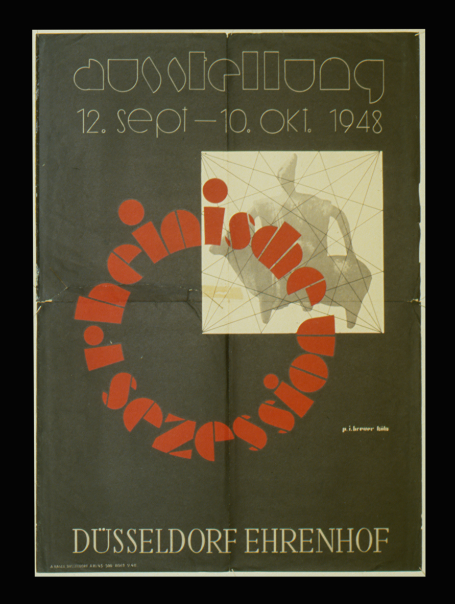 P. J. Breuer, poster, 1948